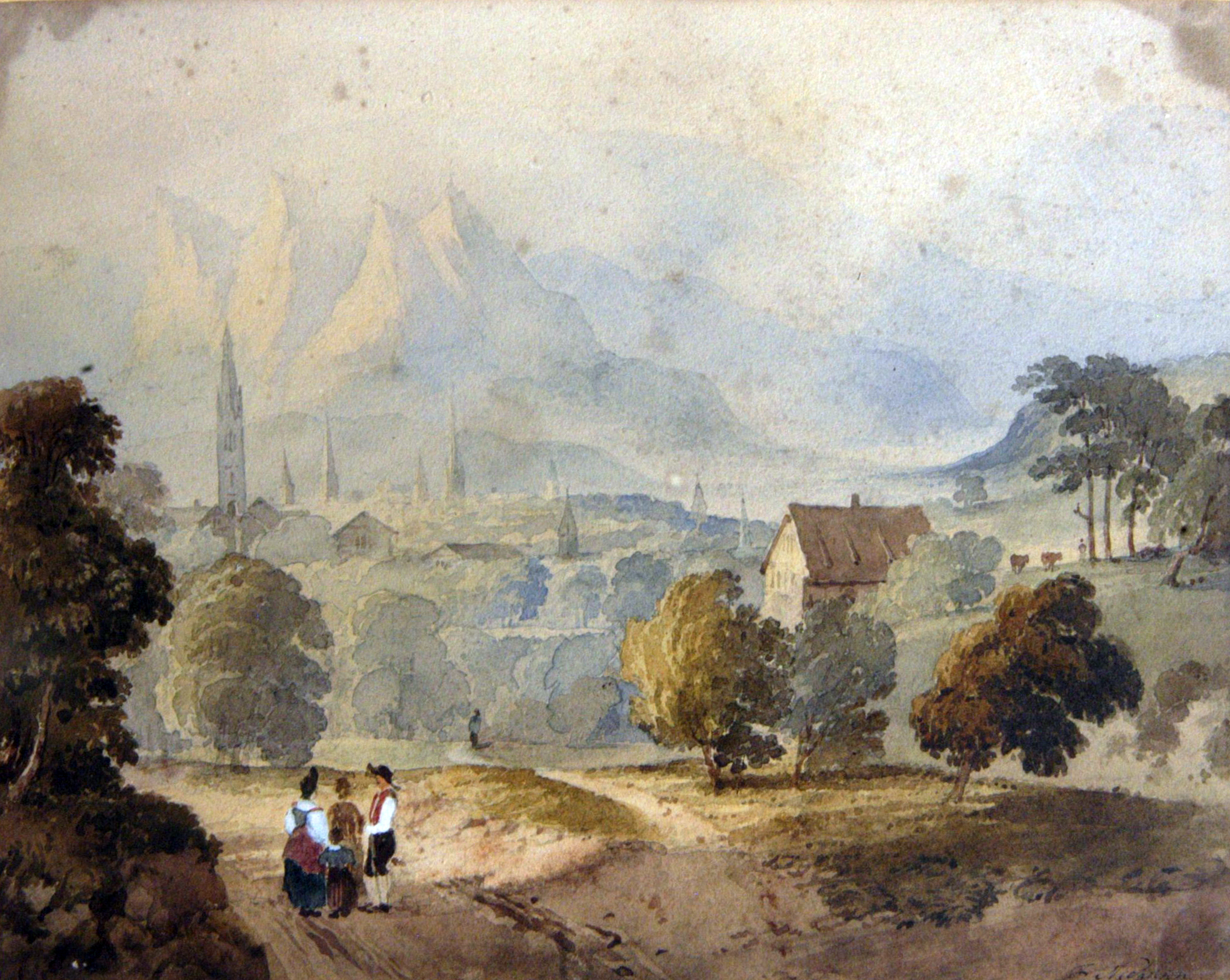 Photograph (by me Rodolph de SalisRodolph (talk) 10:49, 26 July 2013 (UTC)) of a watercolour drawing of Chur/Coire by Francis Nicholson (1753-1844). Size: 8.25 x 10.5 inches. Other information Photograph (by me, R. de Salis) of a watercolur (in my collection) of Chur-Coire by Francis Nicholson (1753-1844).